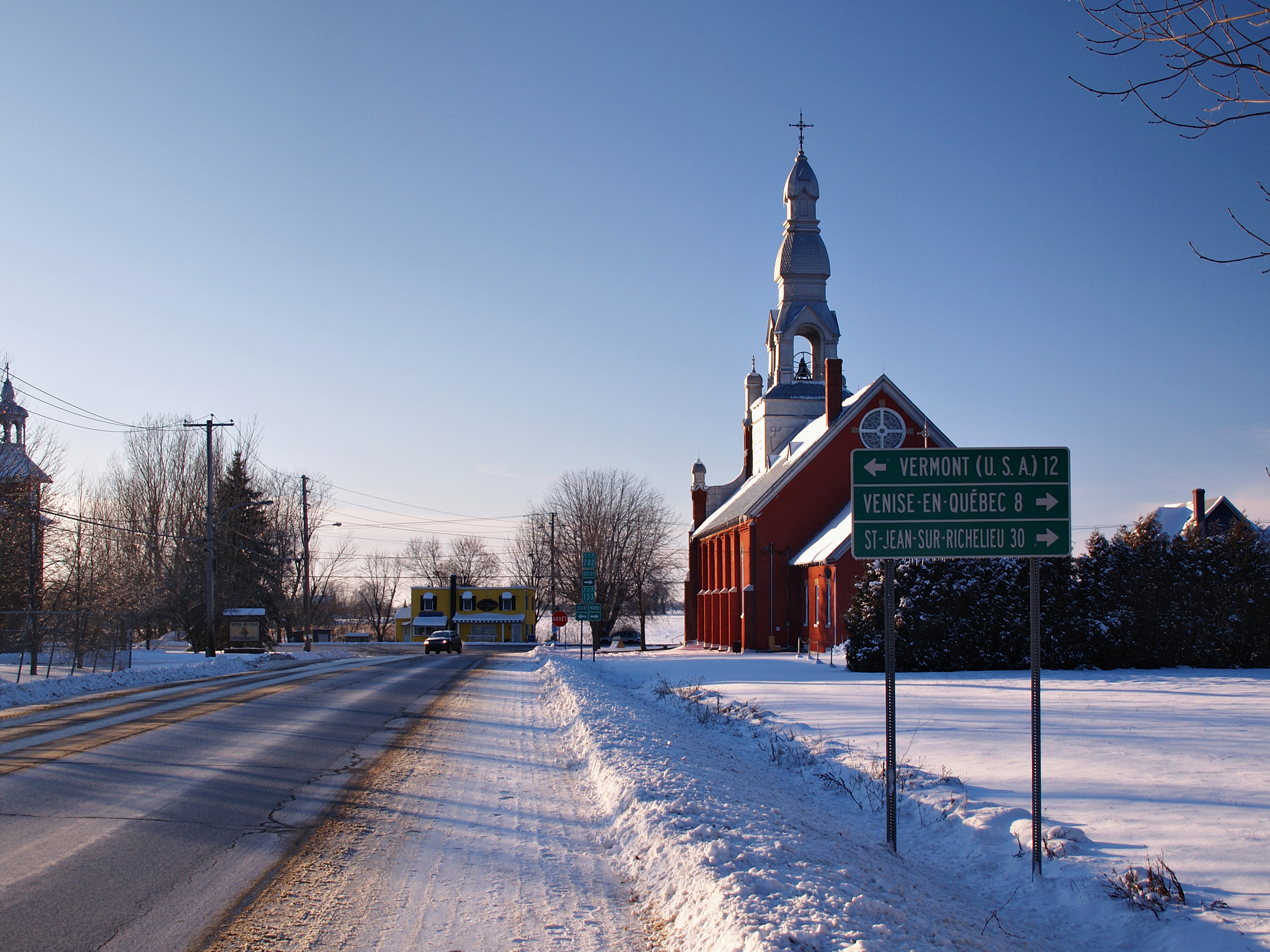 Pike River, Quebec (formerly St-Pierre-de-Véronne-à-Pike-River)